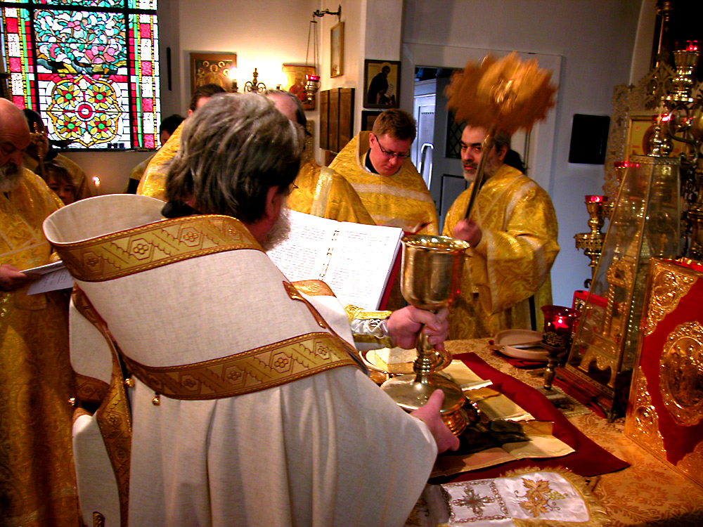 Liturgy of St James. Russian Orthodox Church in Duesseldorf.